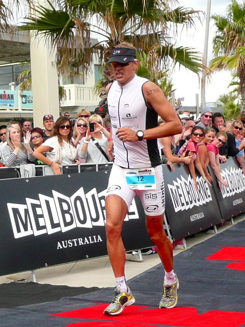 Marko Albert at the 2012 Melbourne Ironman, finishing 9th